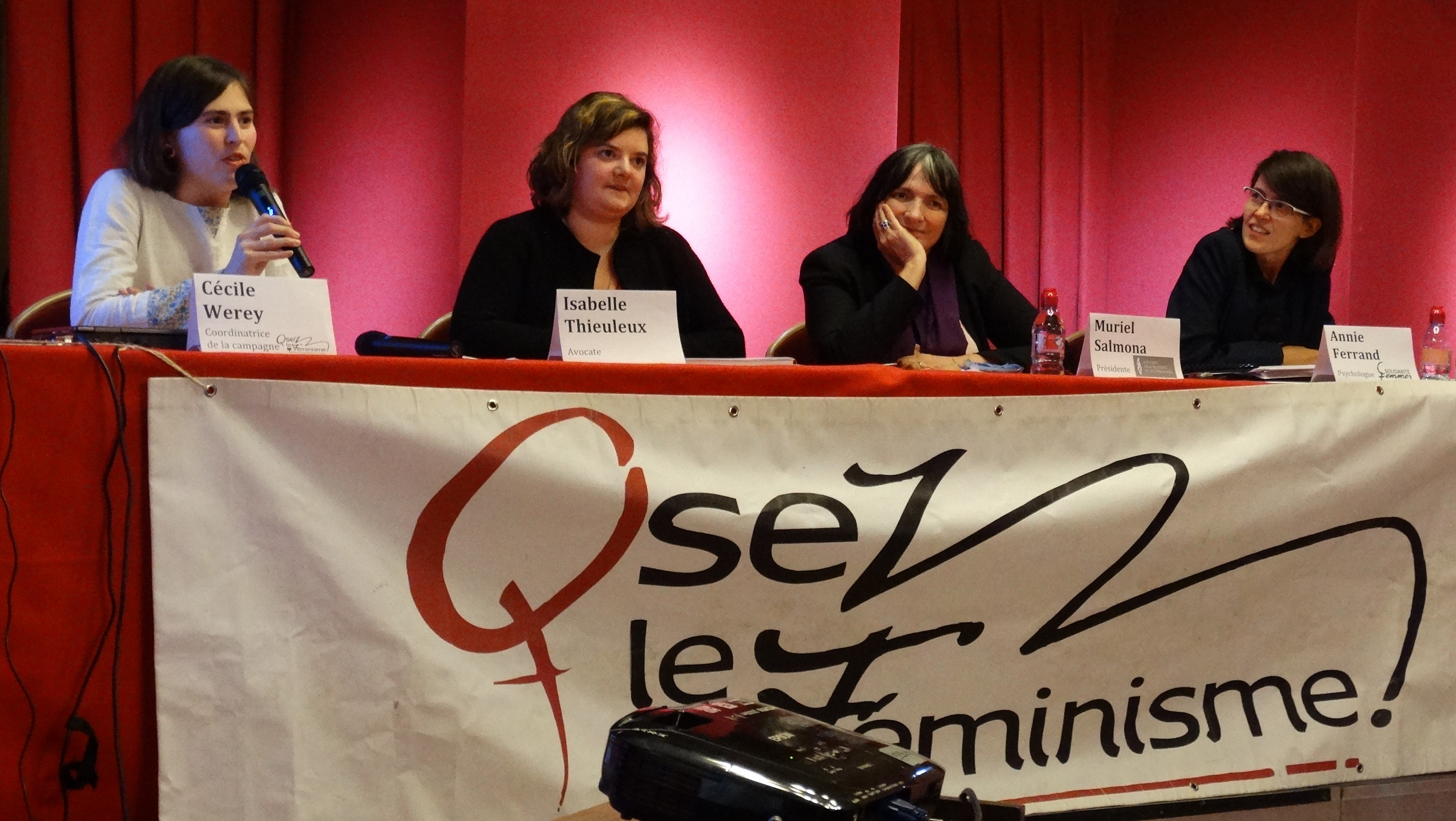 Cécile Werey, coordinator of the campaign "To Our Health" by Osez le féminisme !, introduces the French speakers of the round table "Fighting against abusers among health professionals": the lawyer Isabelle Thieuleux, the psychiatrist in psychotraumatology Muriel Salmona and the feminist psychologist Annie Ferrand. In Paris.